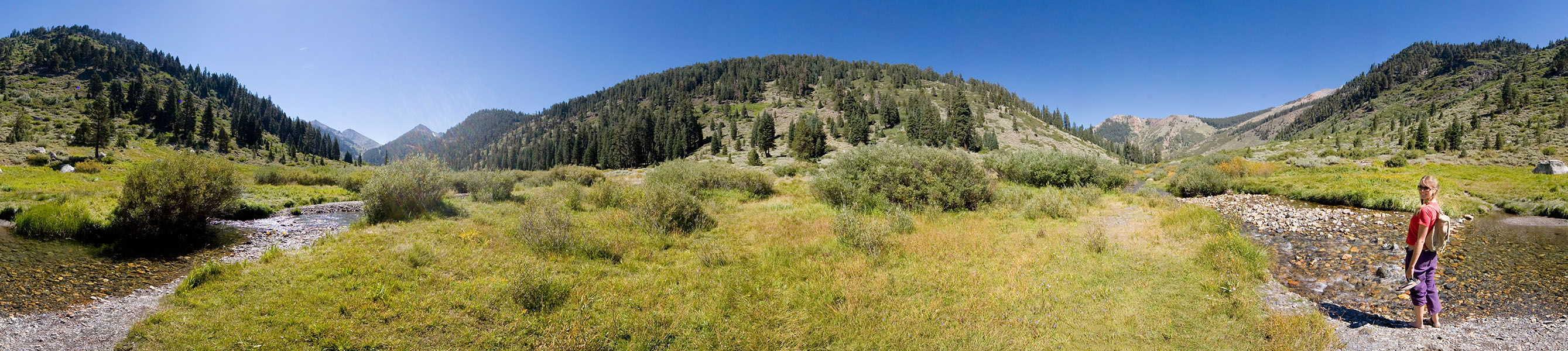 Hiking near Atwell Mill in Sequoia National Park